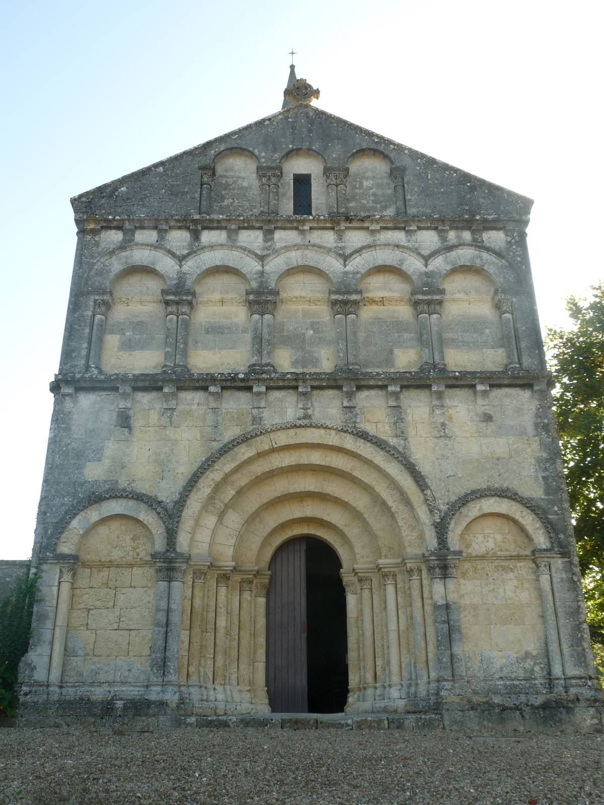 church